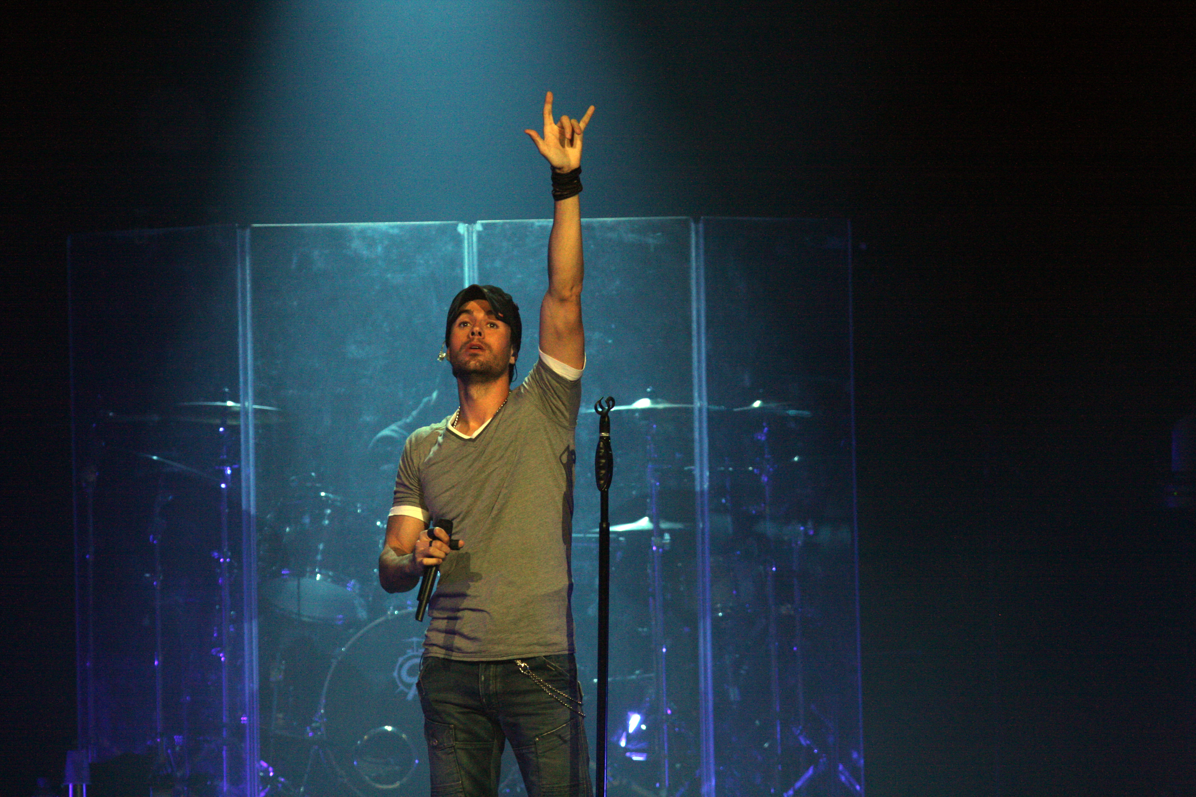 Enrique Iglesias